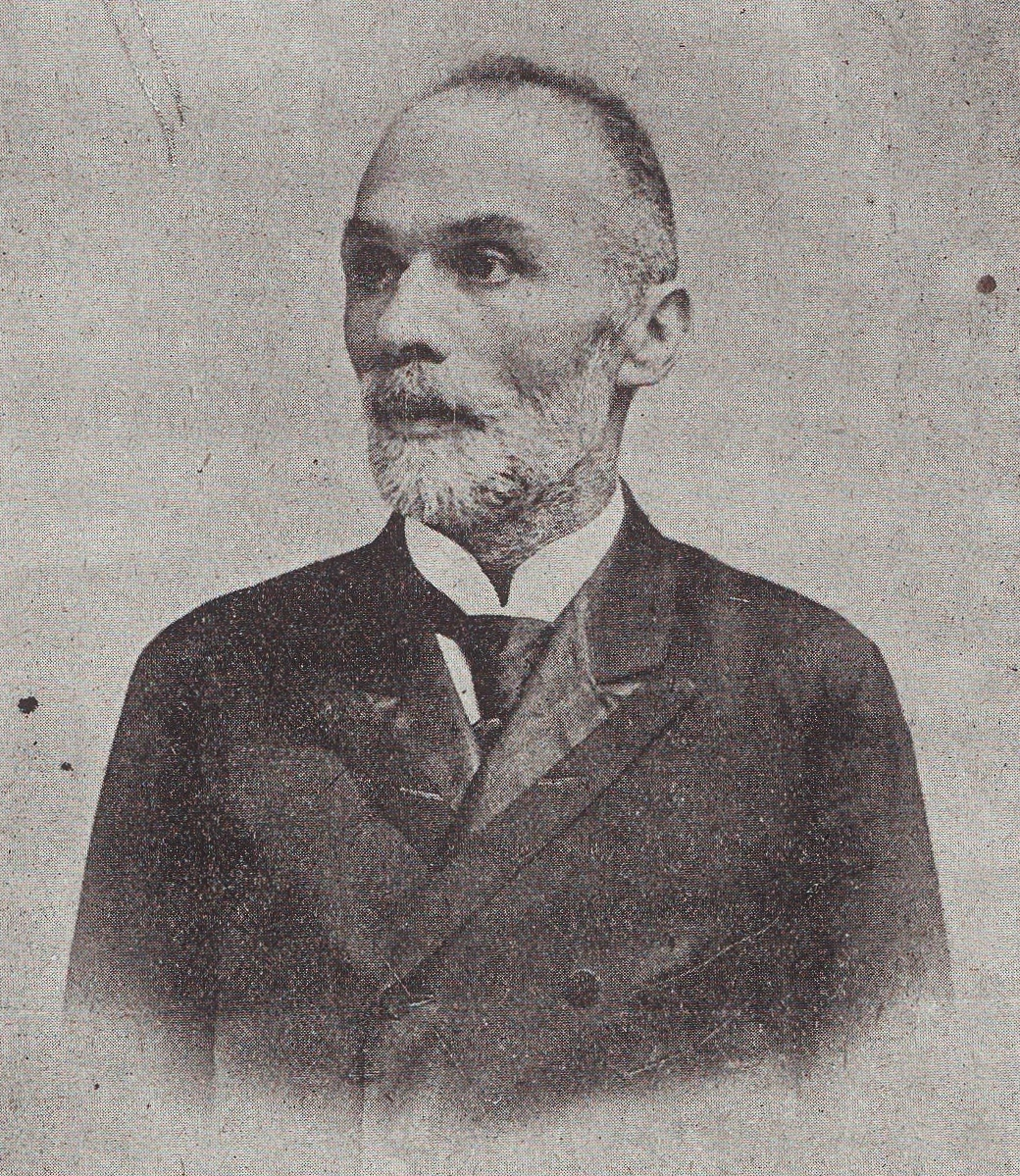 A photograph of Josif Jagić, a Serbian lawyer from Mohács and MP in the Hungarian Parliament from Baranya. Taken from the 1902 edition of the calendar Orao. Srpski (latinica): Fotografija Josifa Jagića, srpskog advokata iz Mohača i poslanika u ugarskom Saboru iz Baranje. Preuzeto iz izdanja kalendara Orao za 1902. godinu.